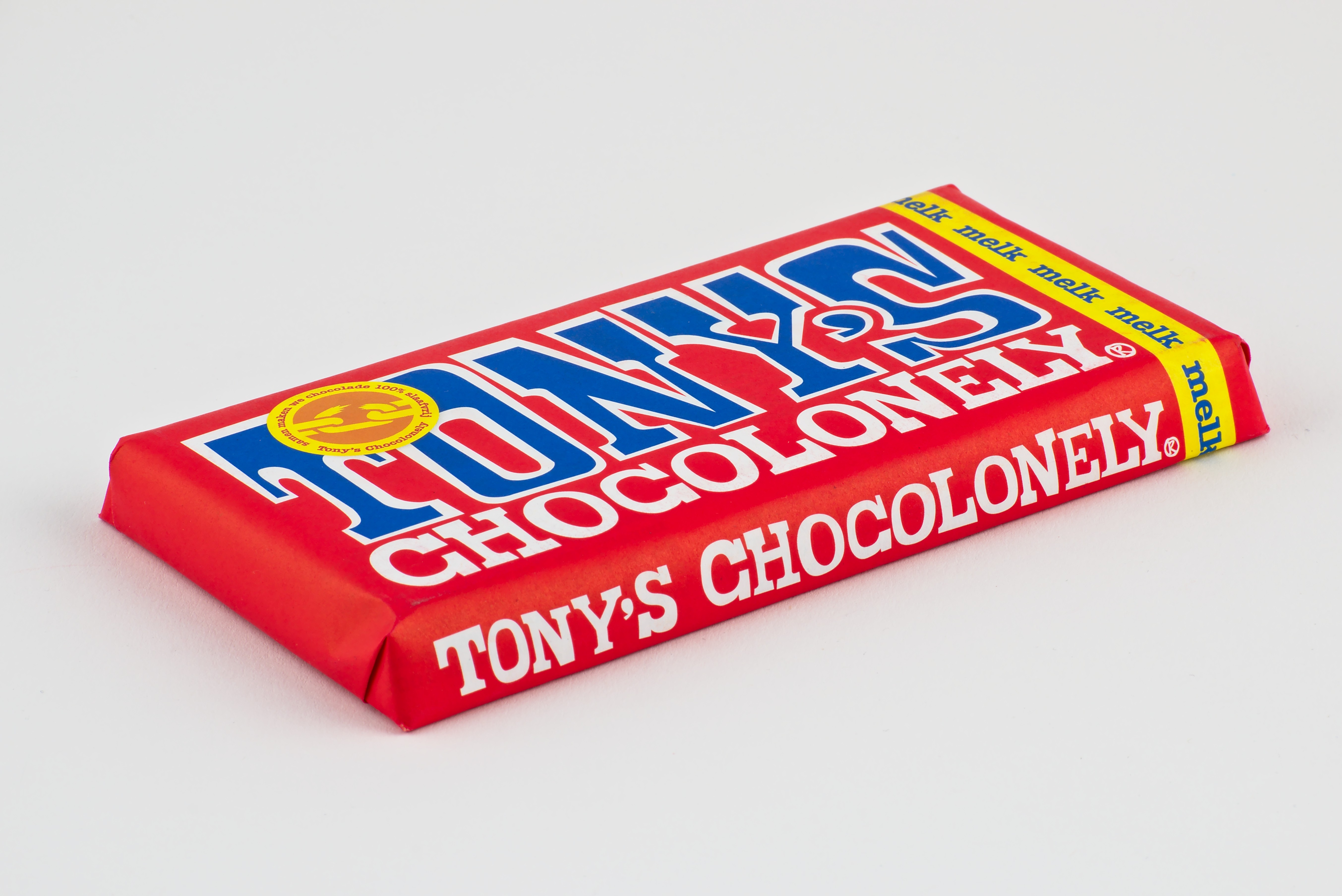 A bar of Tony's Chocolonely milk chocolate, a fair-trade chocolate brand from the Netherlands.